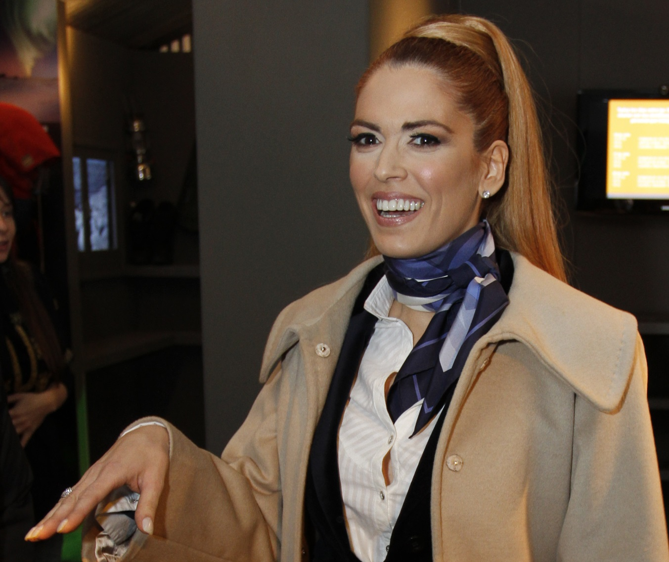 Viviana Canosa en Tecnópolis